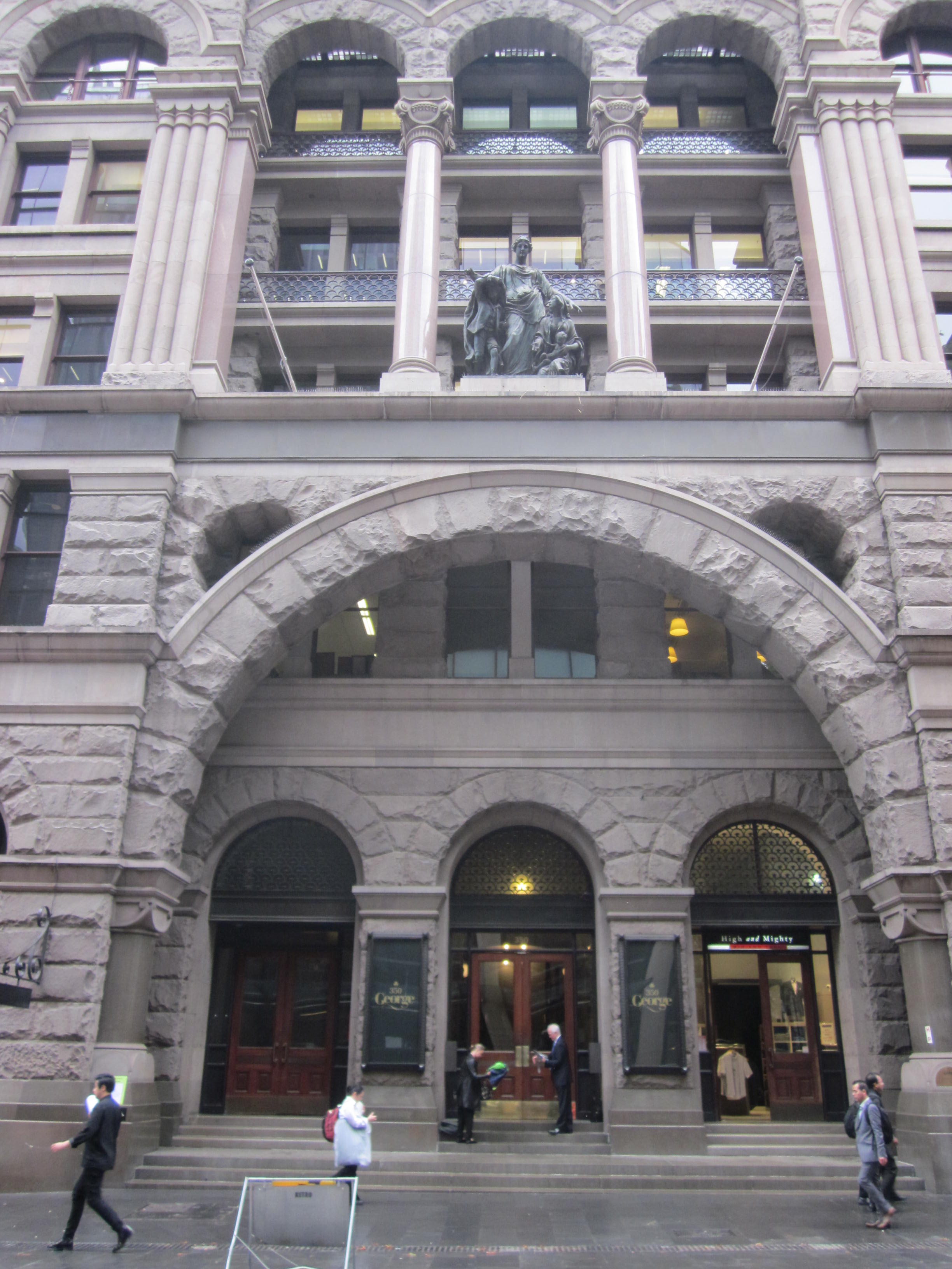 348-352 George Street, Sydney was formerly known as the National Mutual Building. It is listed on the New South Wales State heritage Register.